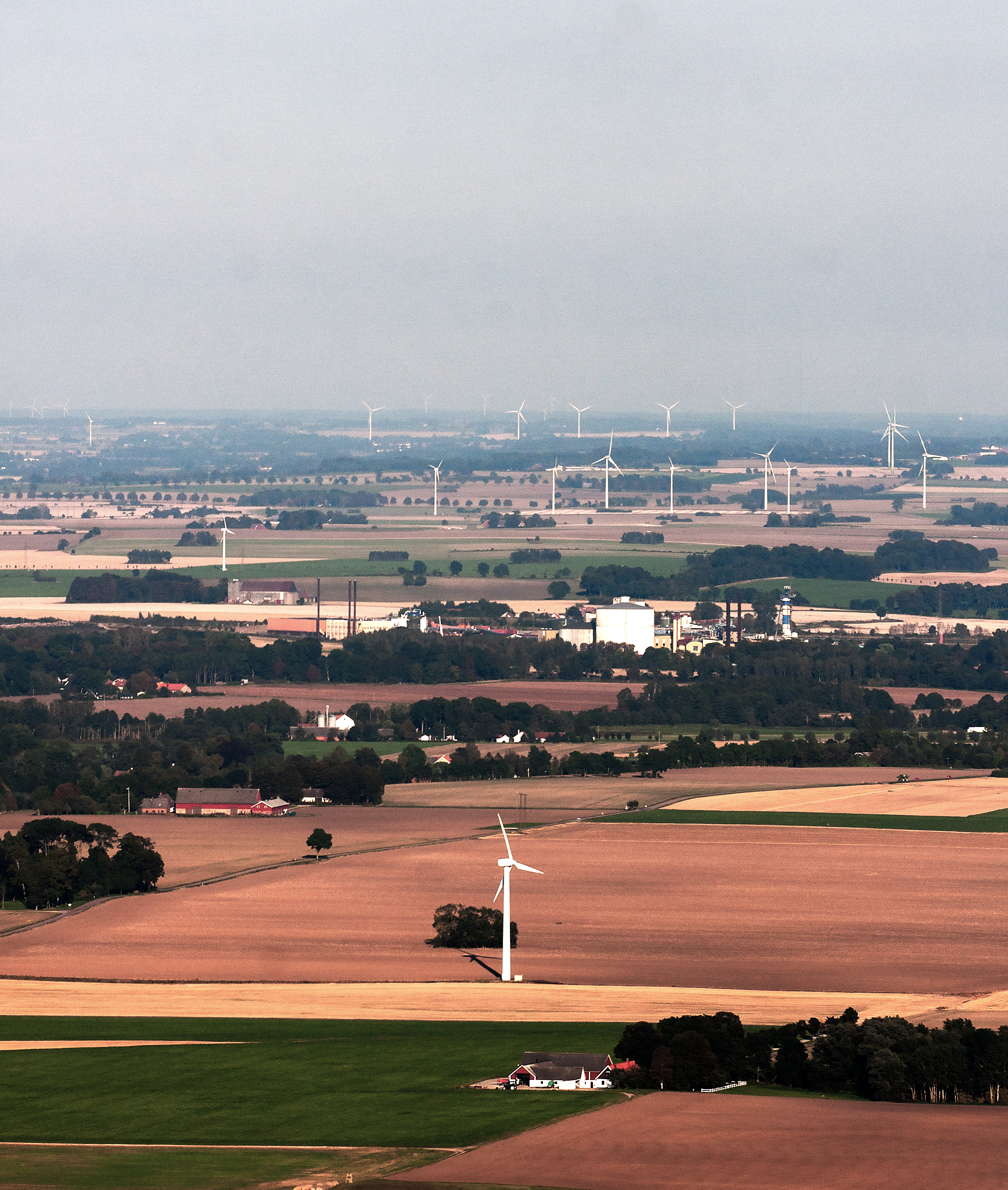 Wind power in the Scanian country side, Sweden.